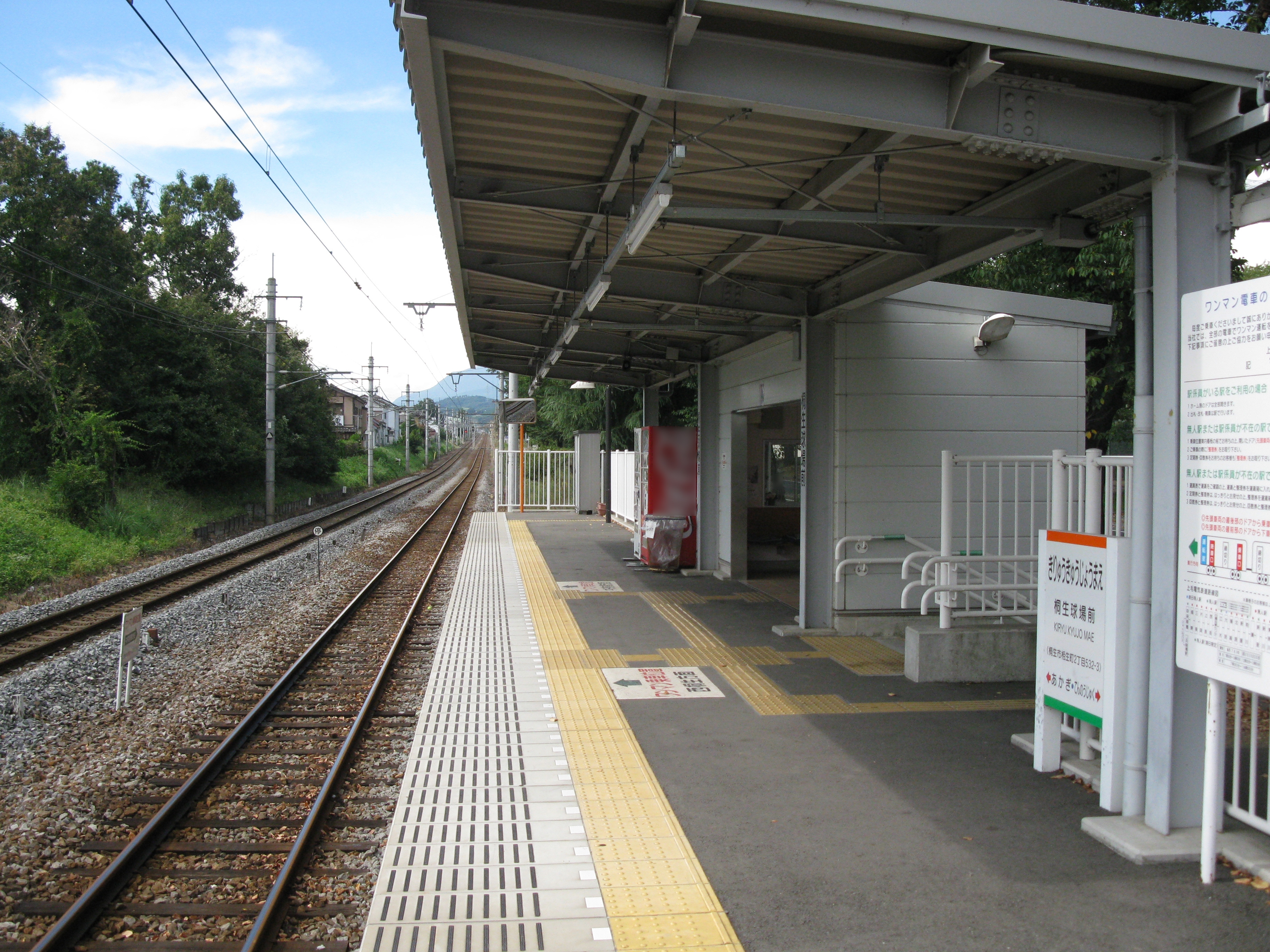 Kiryū-Kyūjō-Mae Station platform (Jōmō Electric Railway Company Jōmō Line)